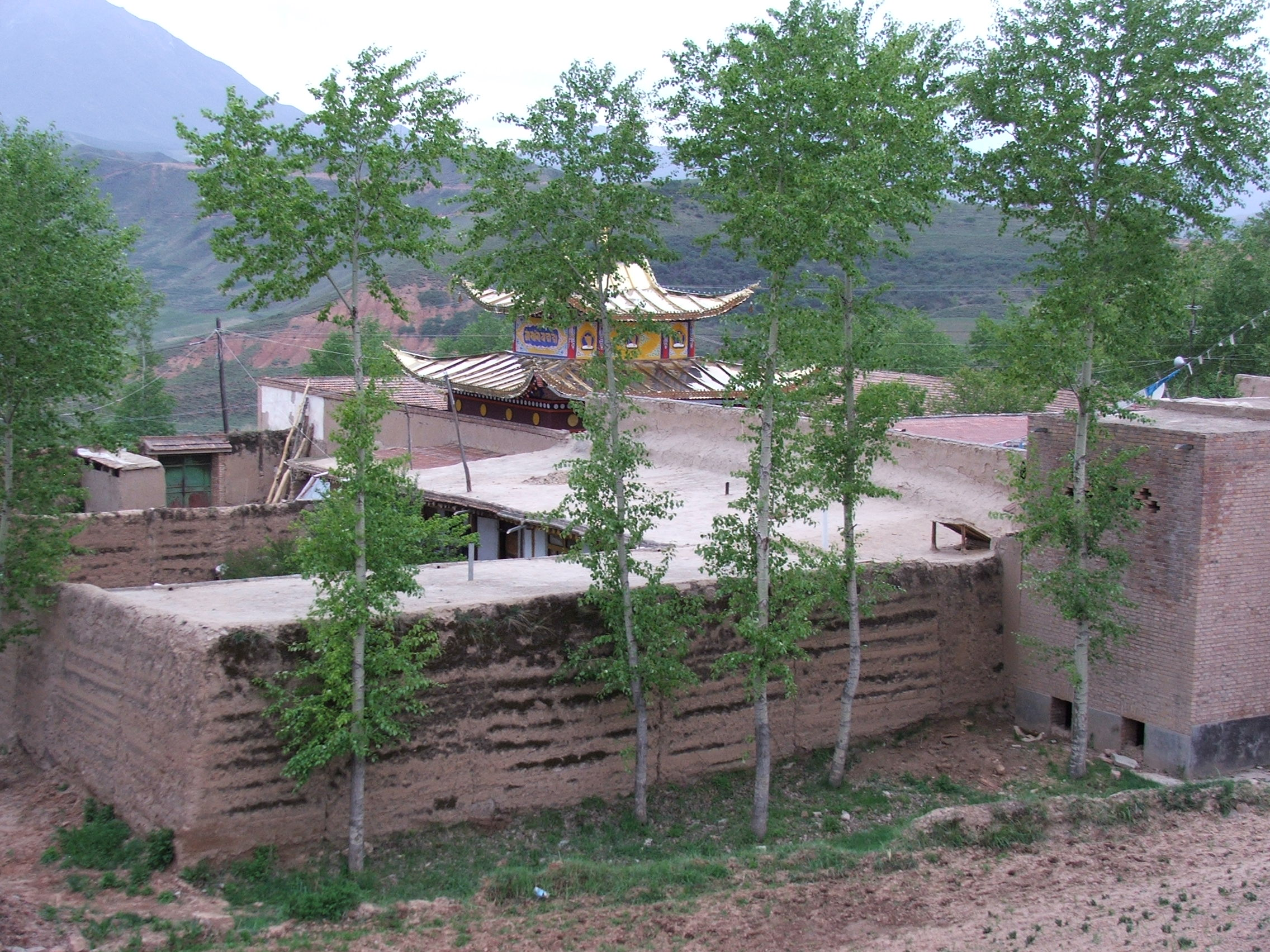 Birthplace of 14th Dalai Lama in the village Taktser (Hongya), Qinghai province, China.